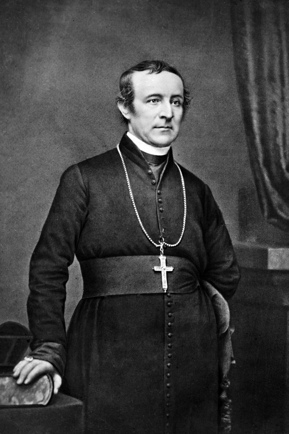 John Hughes (archbishop). Library of Congress description: "Archbishop Hughes"